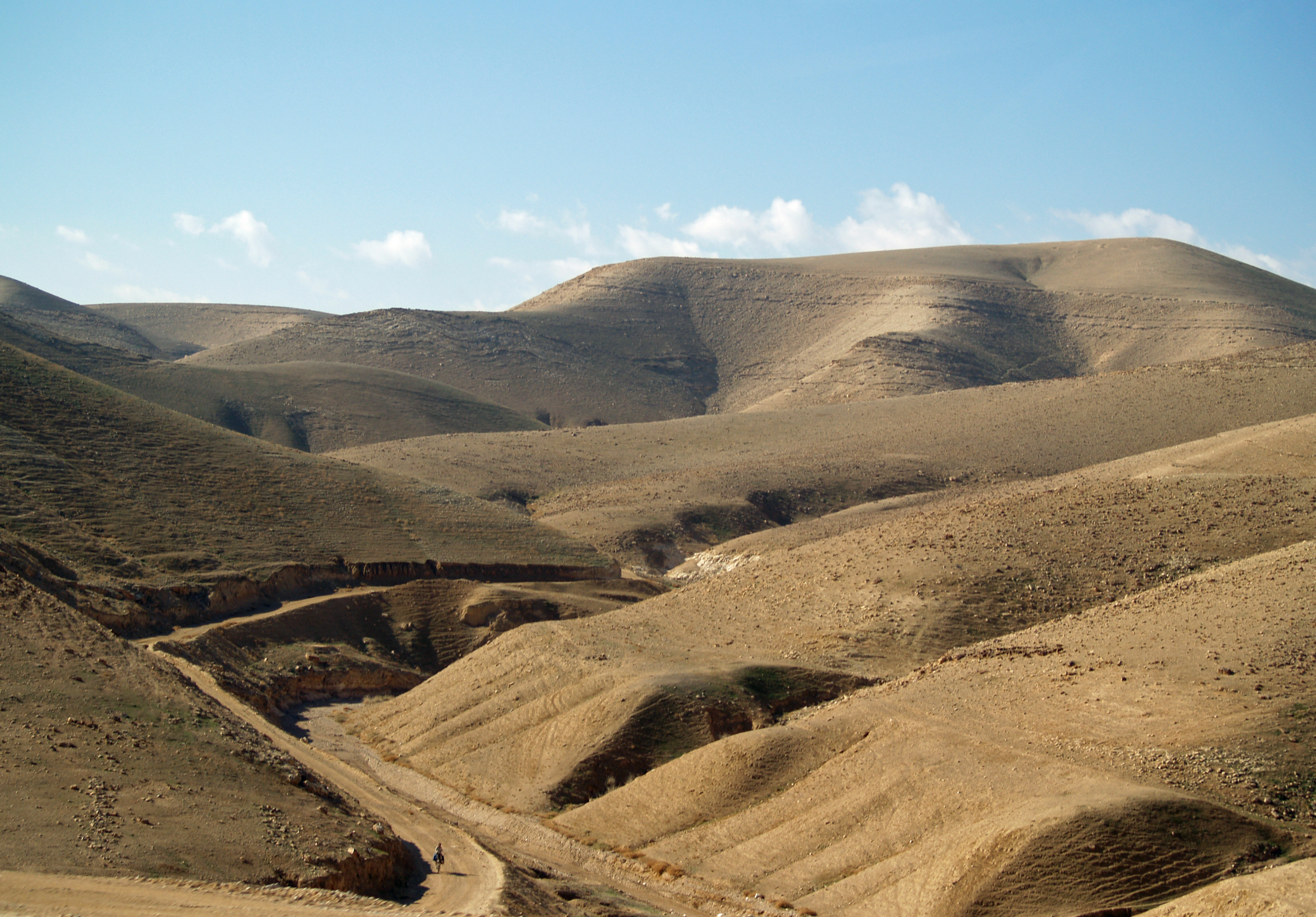 hills in the Judean desert